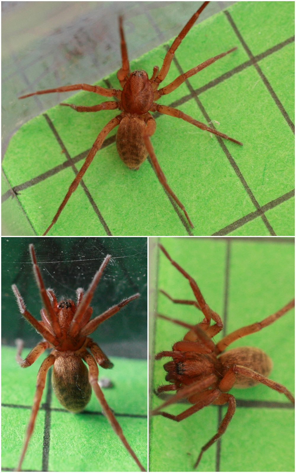 Probably Agroeca sp (Liocranidae). From amongst leaf litter in wet woodland ride. Note it looked alot less orange in real life! Bricket Wood Common, Hertfordshire, 08.04.2010.